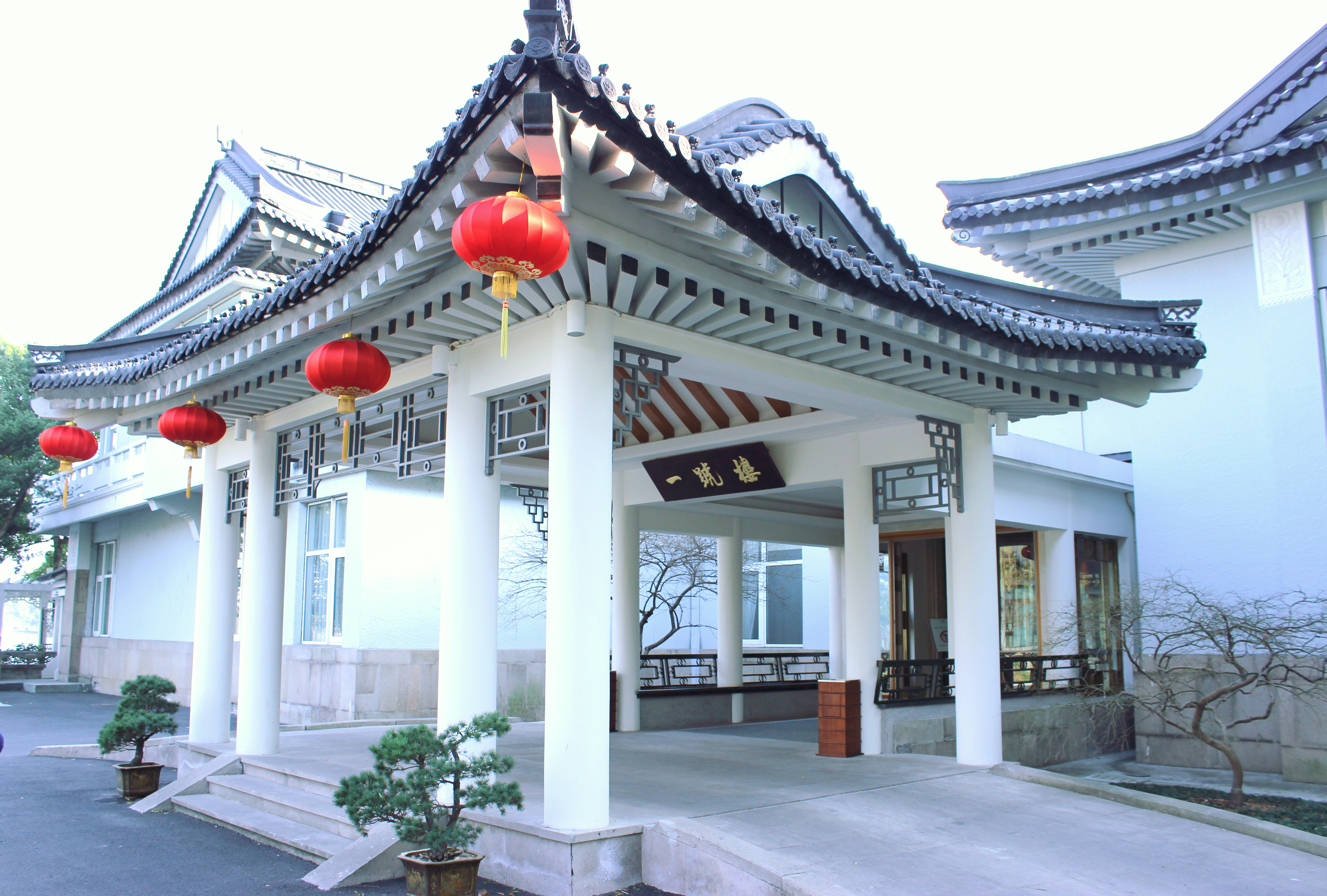 杭州西湖国宾馆一号楼-毛主席住所， Mao Zedong's Residence, West Lake State House，Hangzhou